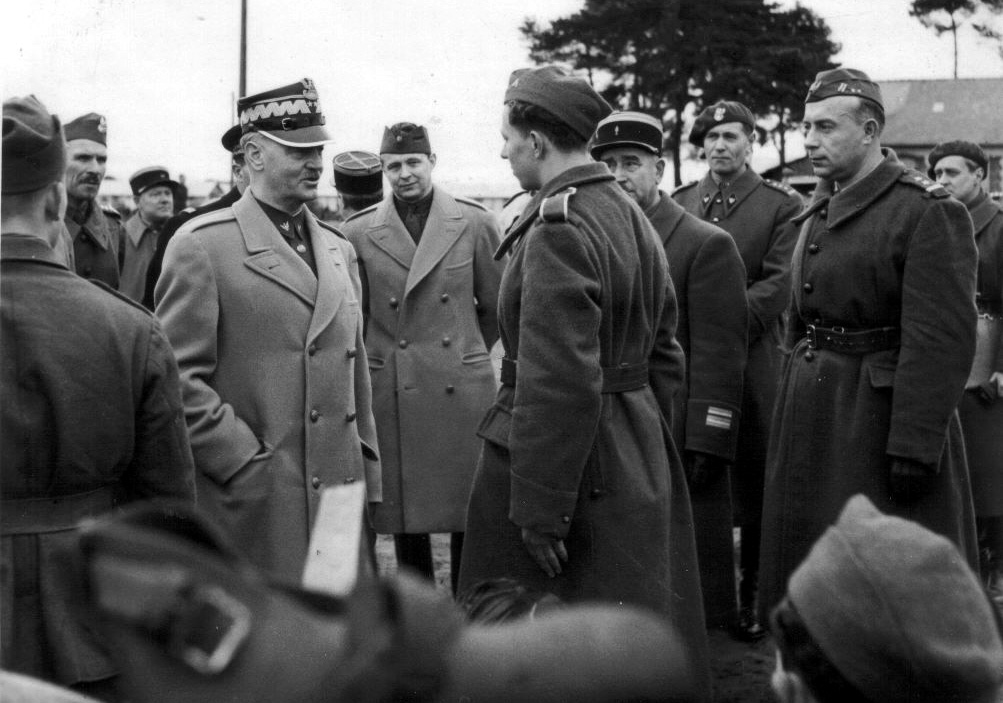 General Sikorski in France 1940 among soldiers of Polish Army in France.